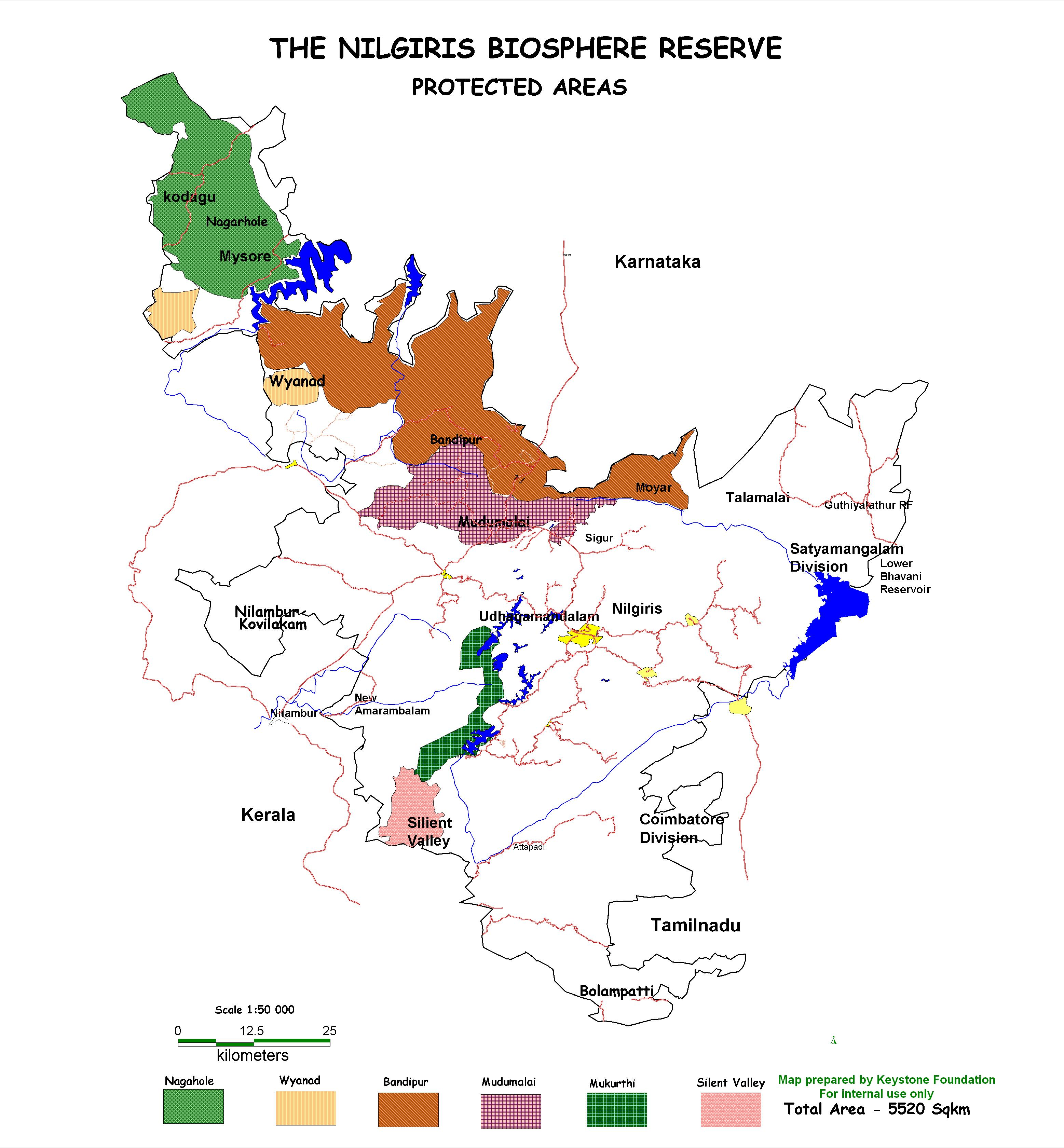 Map of Protected Areas in the Nilgiris Biosphere Reserve, India